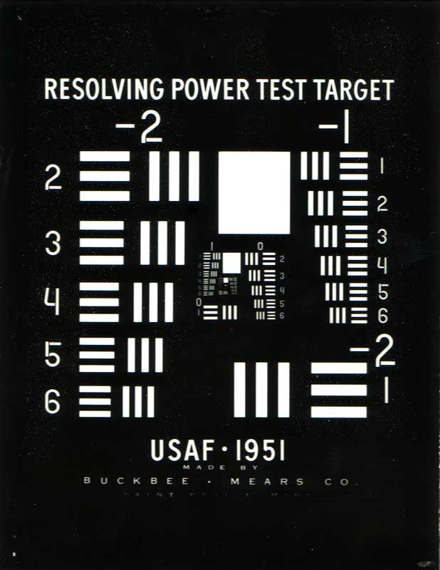 Scanned image of a glass USAF 1951 Resolution test chart that I own.